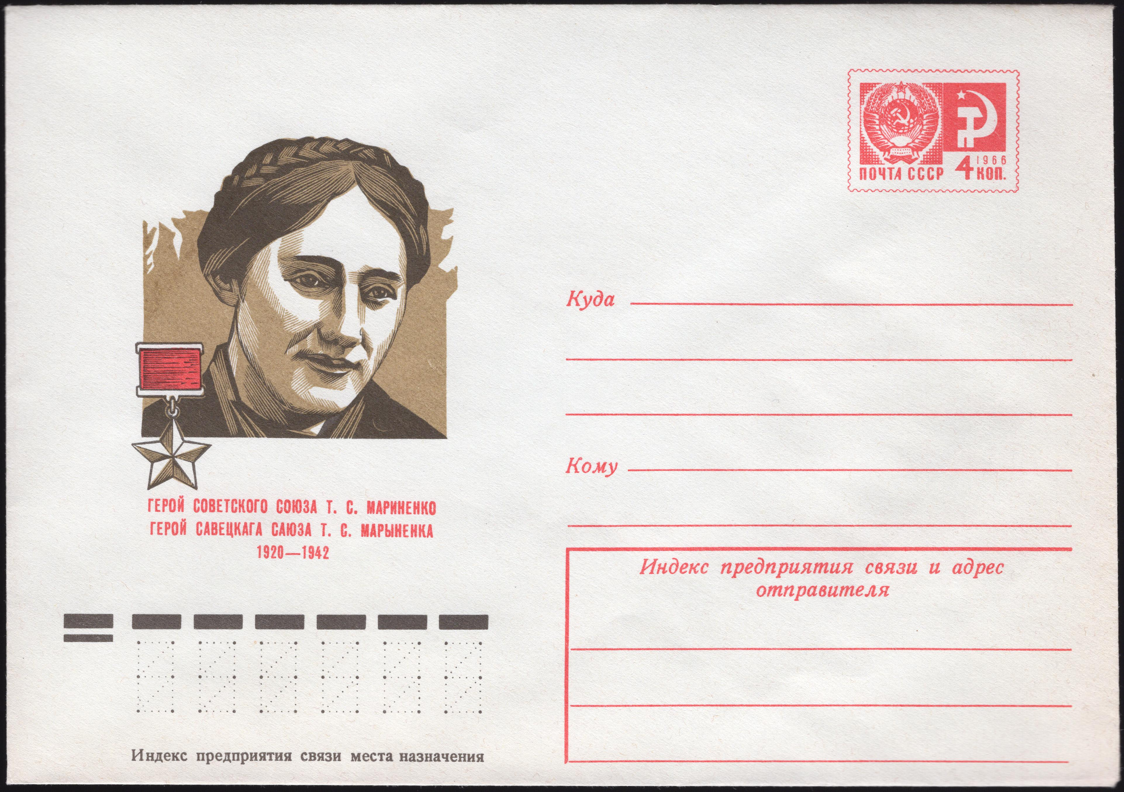 Hero of the Soviet Union Tatyana Marinenko. 1920-1942. Series: Heroes of the Soviet Union. Artist Anatolii Ivanovich Kalashnikov.